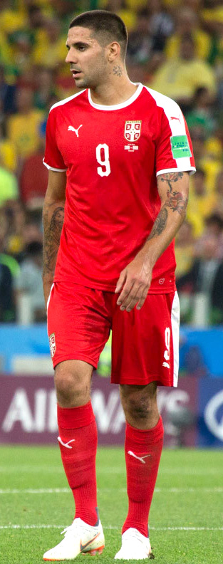 Serbian footballer Aleksandar Mitrović on 27 June 2018, during the 2018 FIFA World Cup group stage match between Serbia and Brazil.